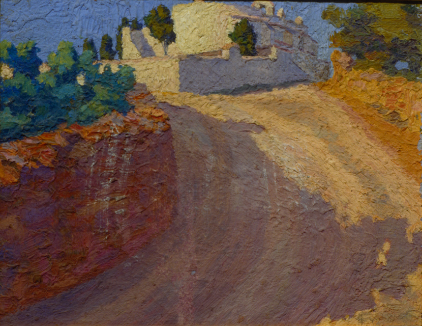 Landscape by Catalan painter Antoni Samarra (1886-1914)